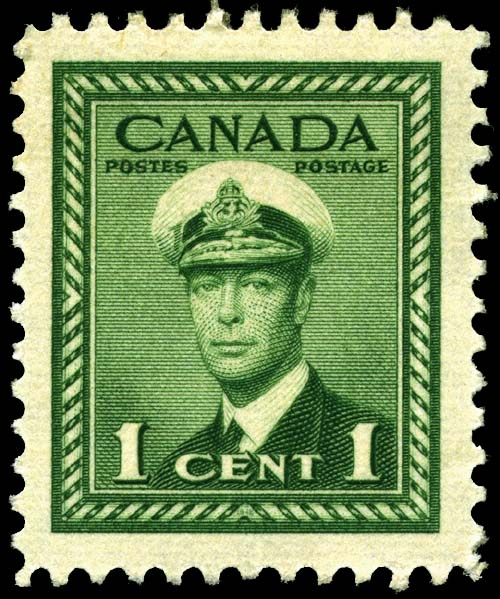 Canada 1-cent stamp of 1942